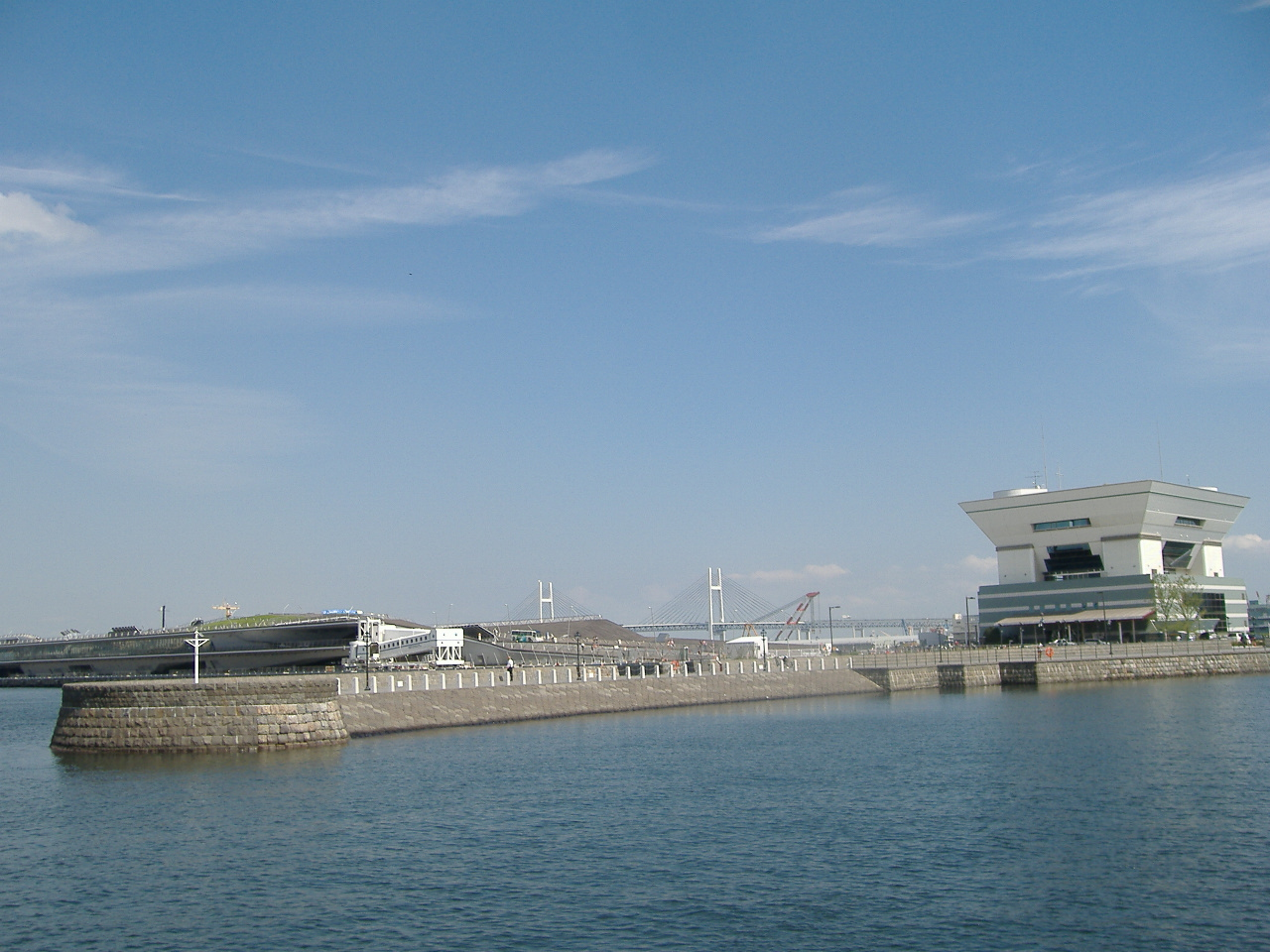 Zounohana pier (Port of Yokohama)